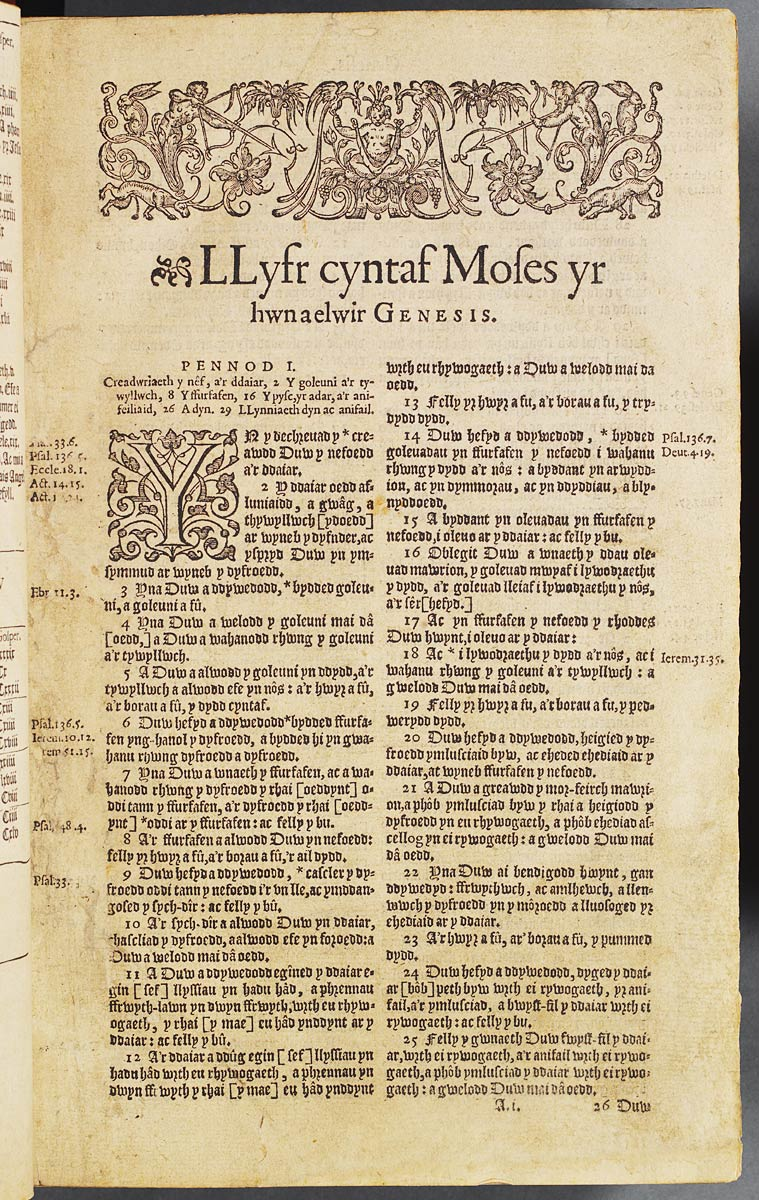 The first page of Genesis from the First Welsh Bible. Translated into Welsh by William Morgan (1545-1604)